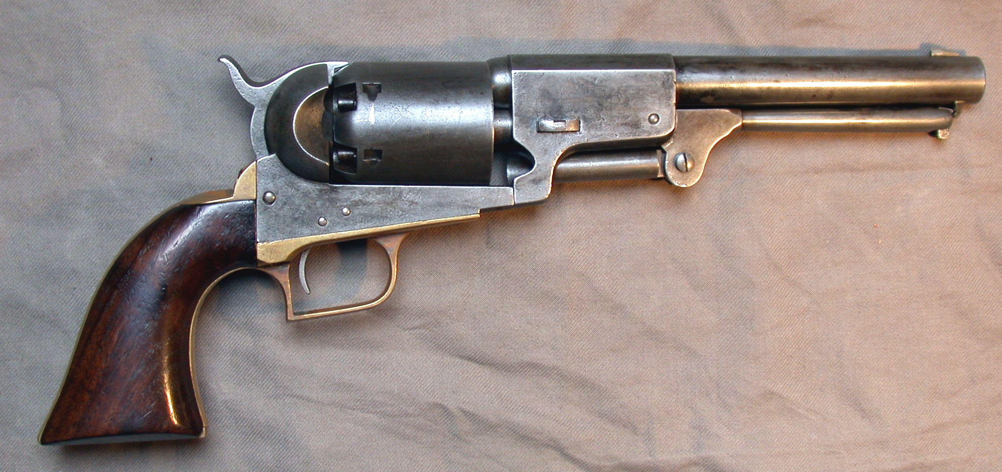 Colt Dragoon Mod 1848, 2nd model, squareback Triggerguard, sold to civil market